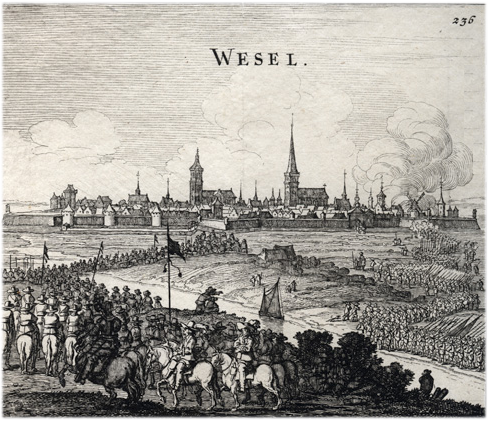 Siege of Wesel (Germany)